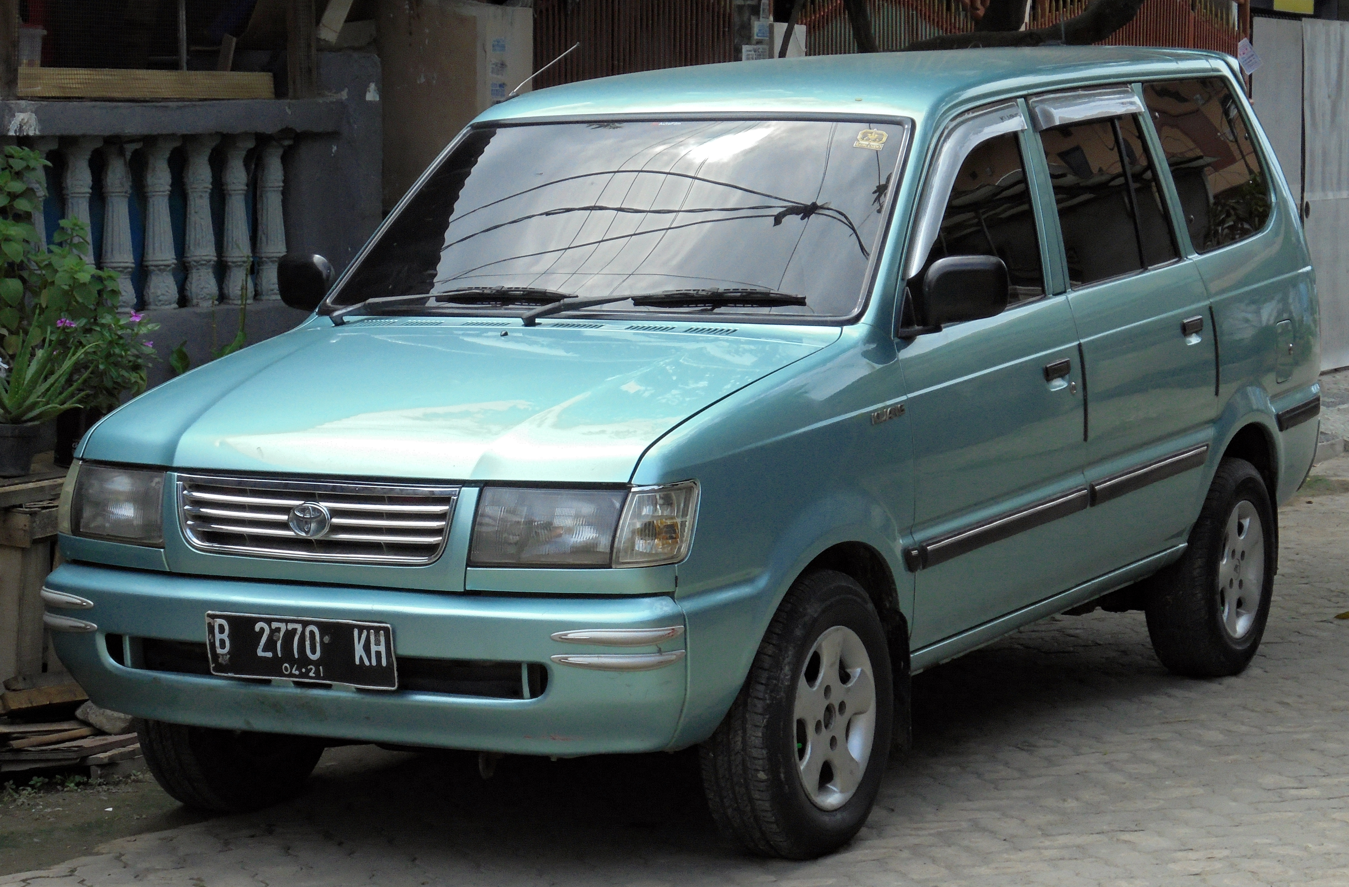 1997 Toyota Kijang 1.8 LGX wagon (KF80) photographed in Tangerang Regency, Banten, Indonesia.